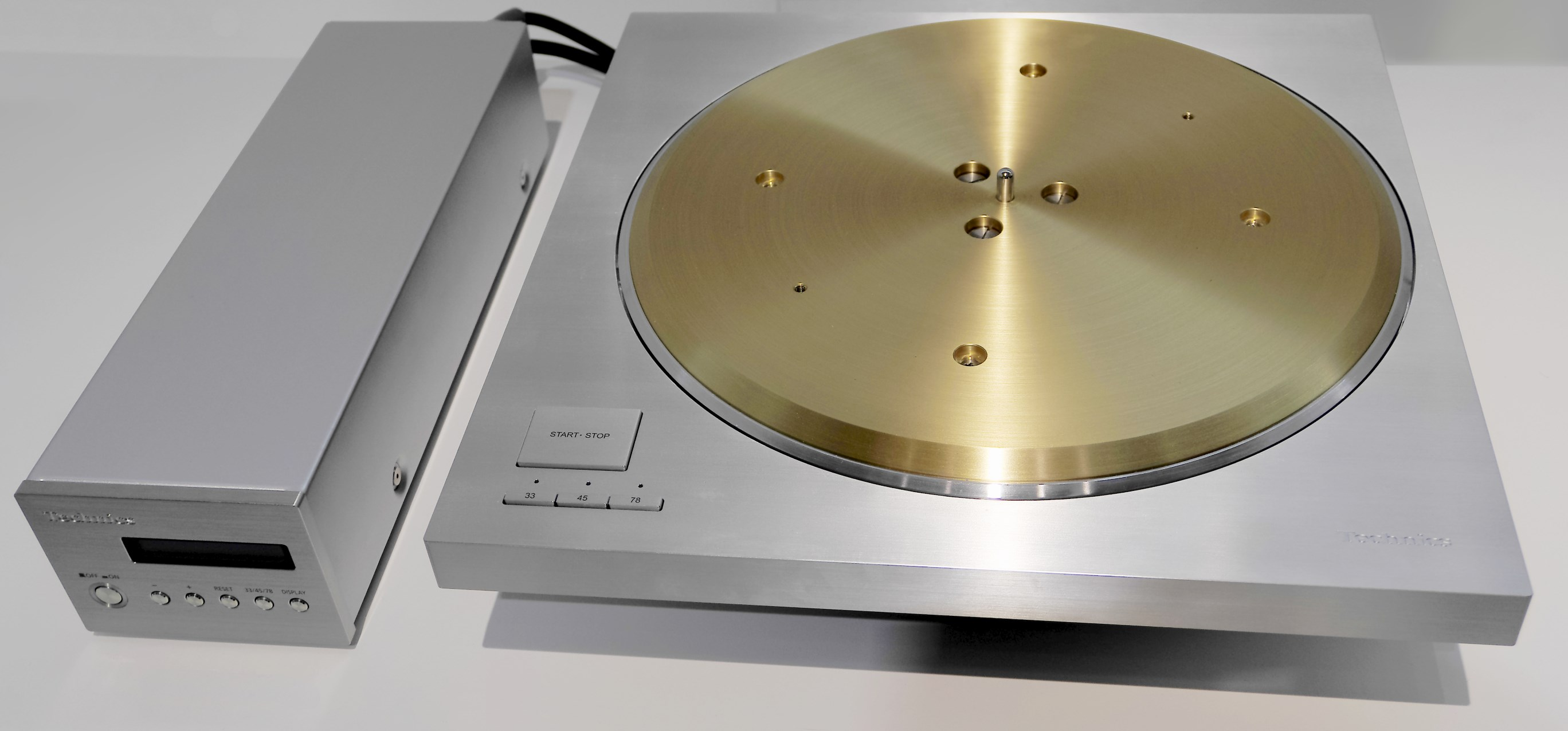 Advancement of the professional turntable Technics SP-10 for disc records, the Technics SP-10R (2018)